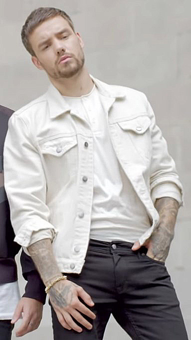 Making The Video: Jonas Blue, Liam Payne & Lennon Stella’s ‘Polaroid’